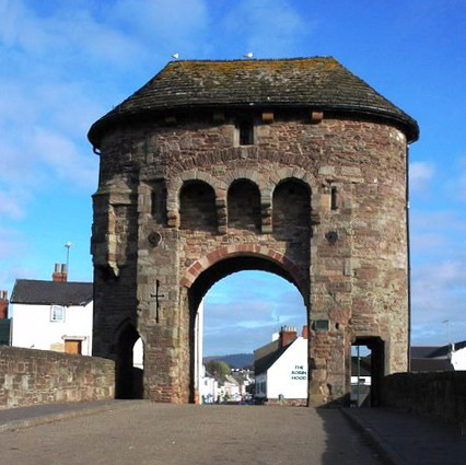 CROpped Gatehouse on Monnow Bridge, Monmouth This medieval gatehouse on the Monnow Bridge is the only example of a fortified bridge in Britain. The bridge used to carry traffic but now is pedestrianised